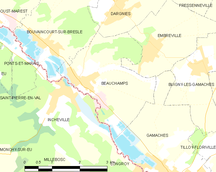 Map of French municipality Beauchamps